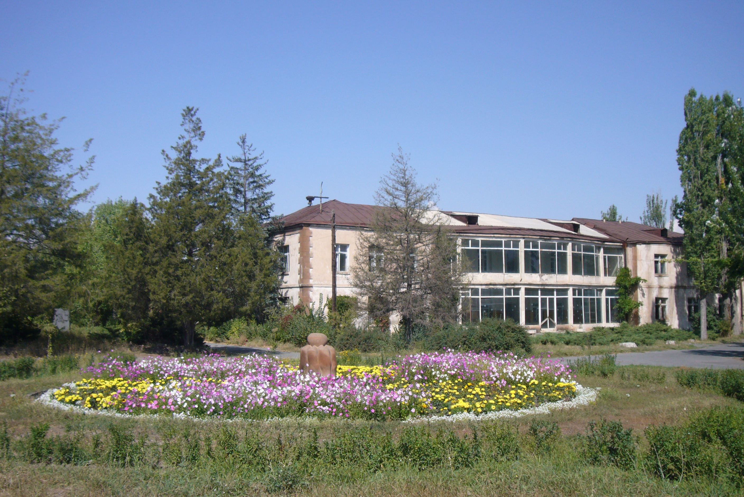 Flowerbed in the Botanical Garden Yerevan